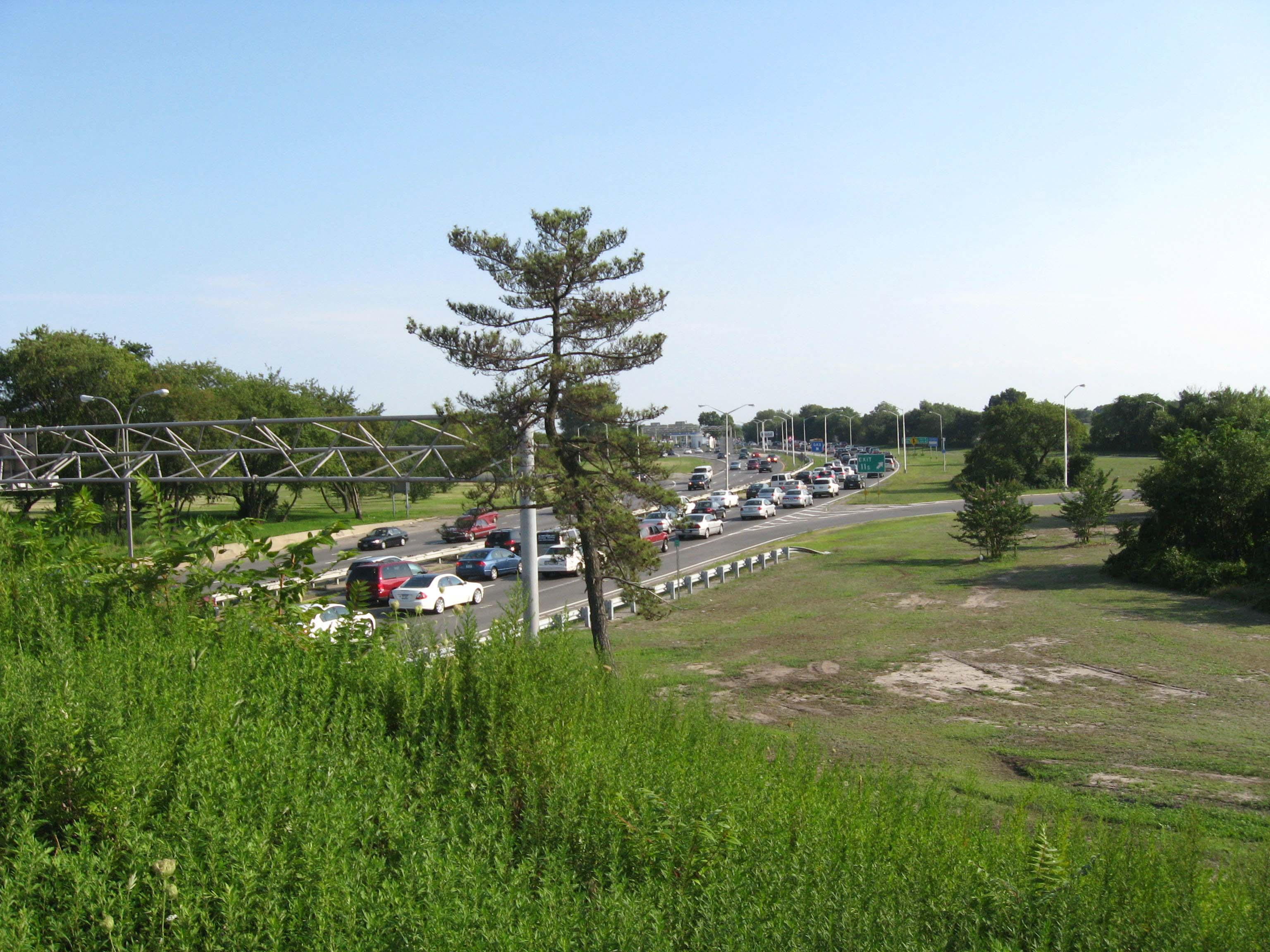 Looking south from northern part of overpass of Flatbush Avenue / Marine Parkway at Belt Parkway on a sunny afternoon